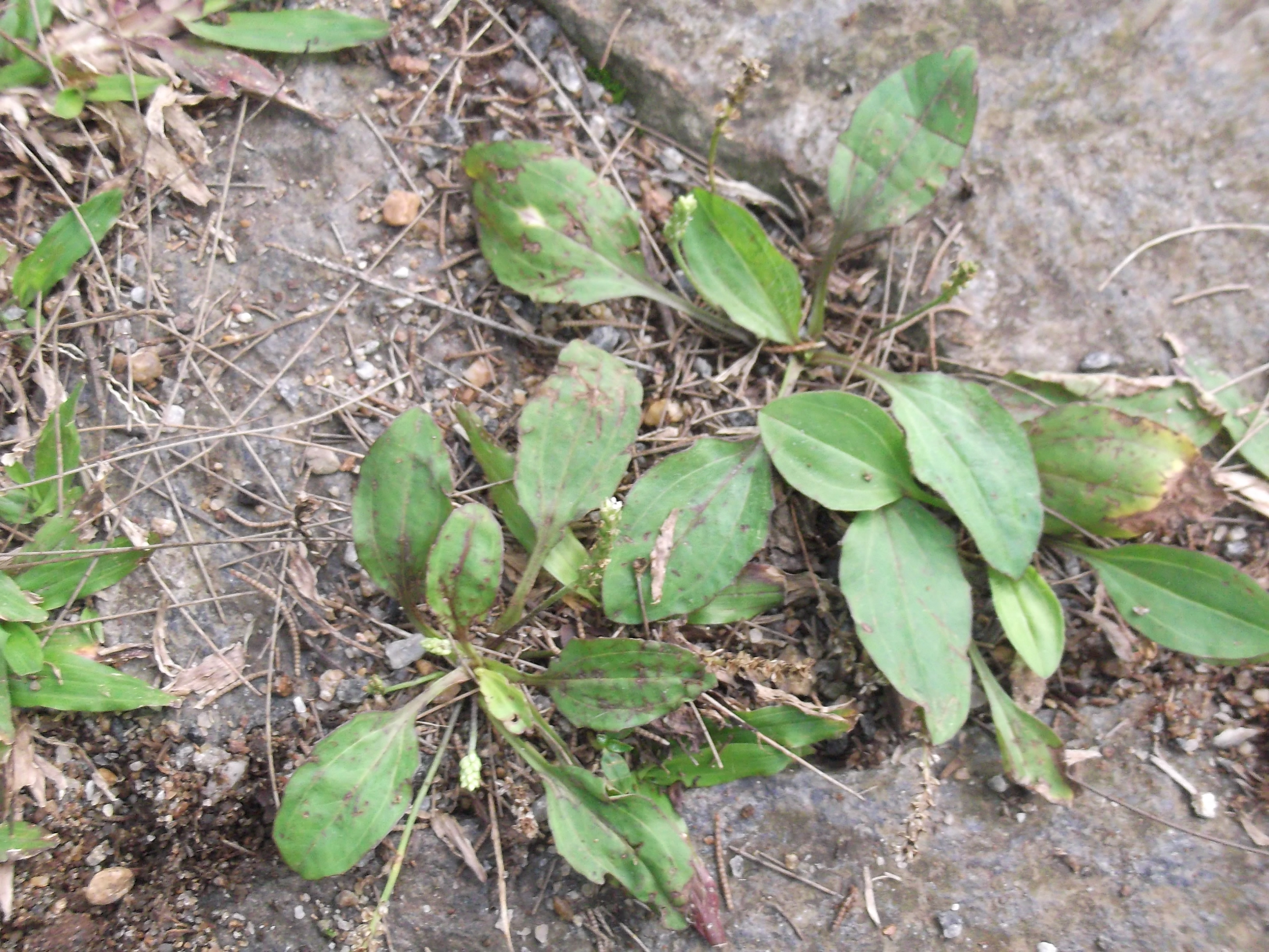 Plantaginaceae-herb,flowers cream.